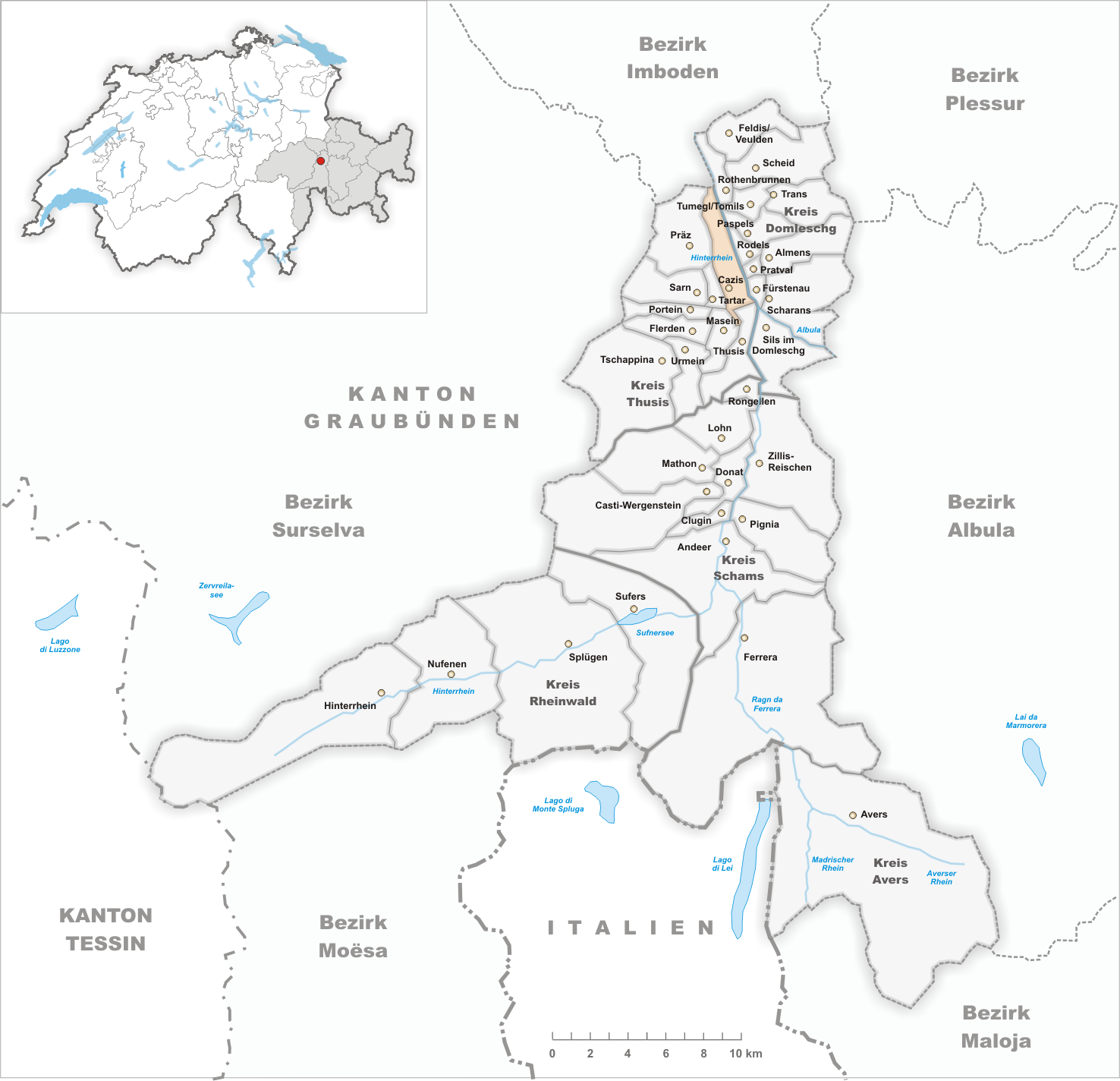 Municipality Cazis